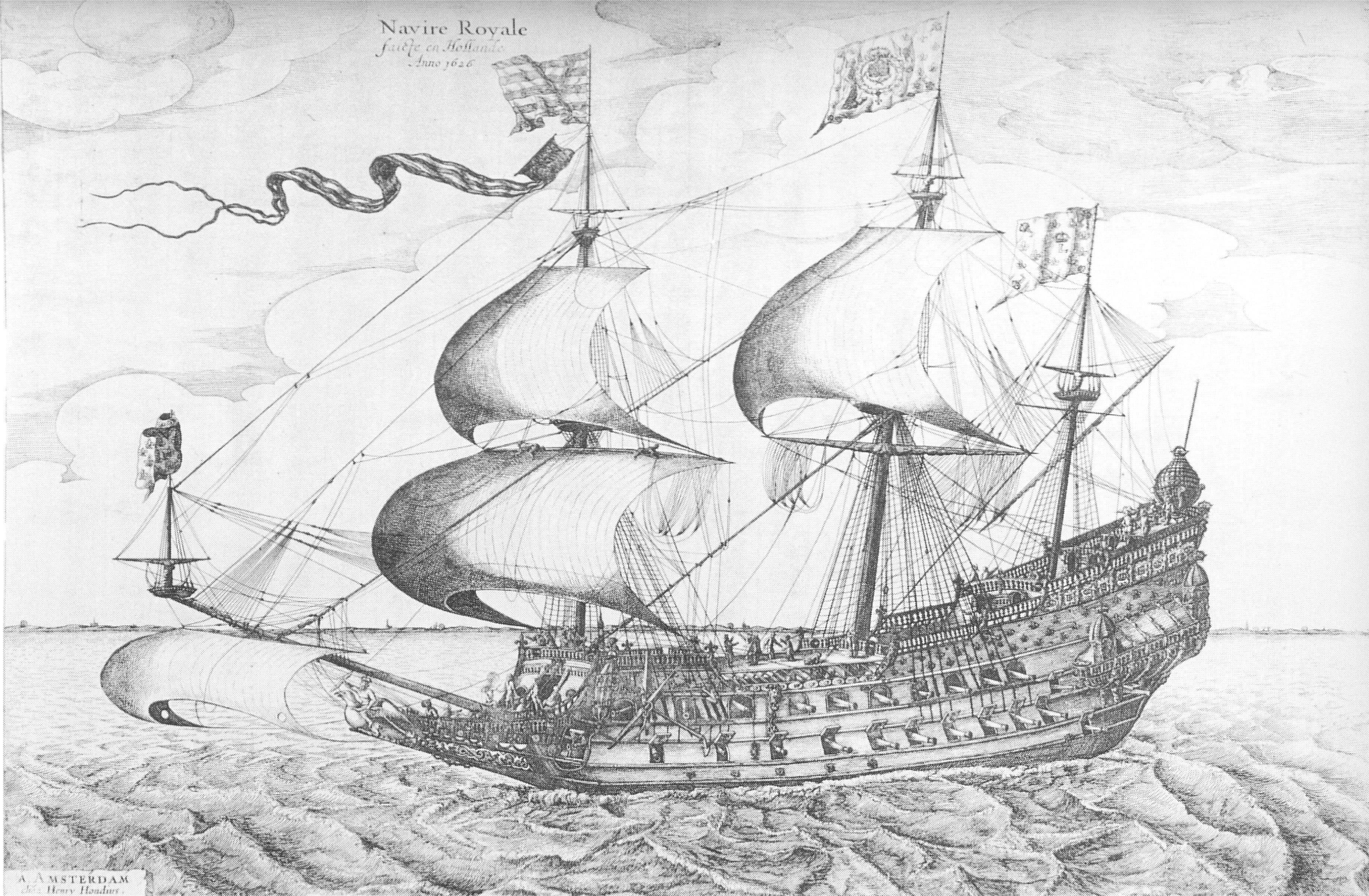 A dutch build french ship